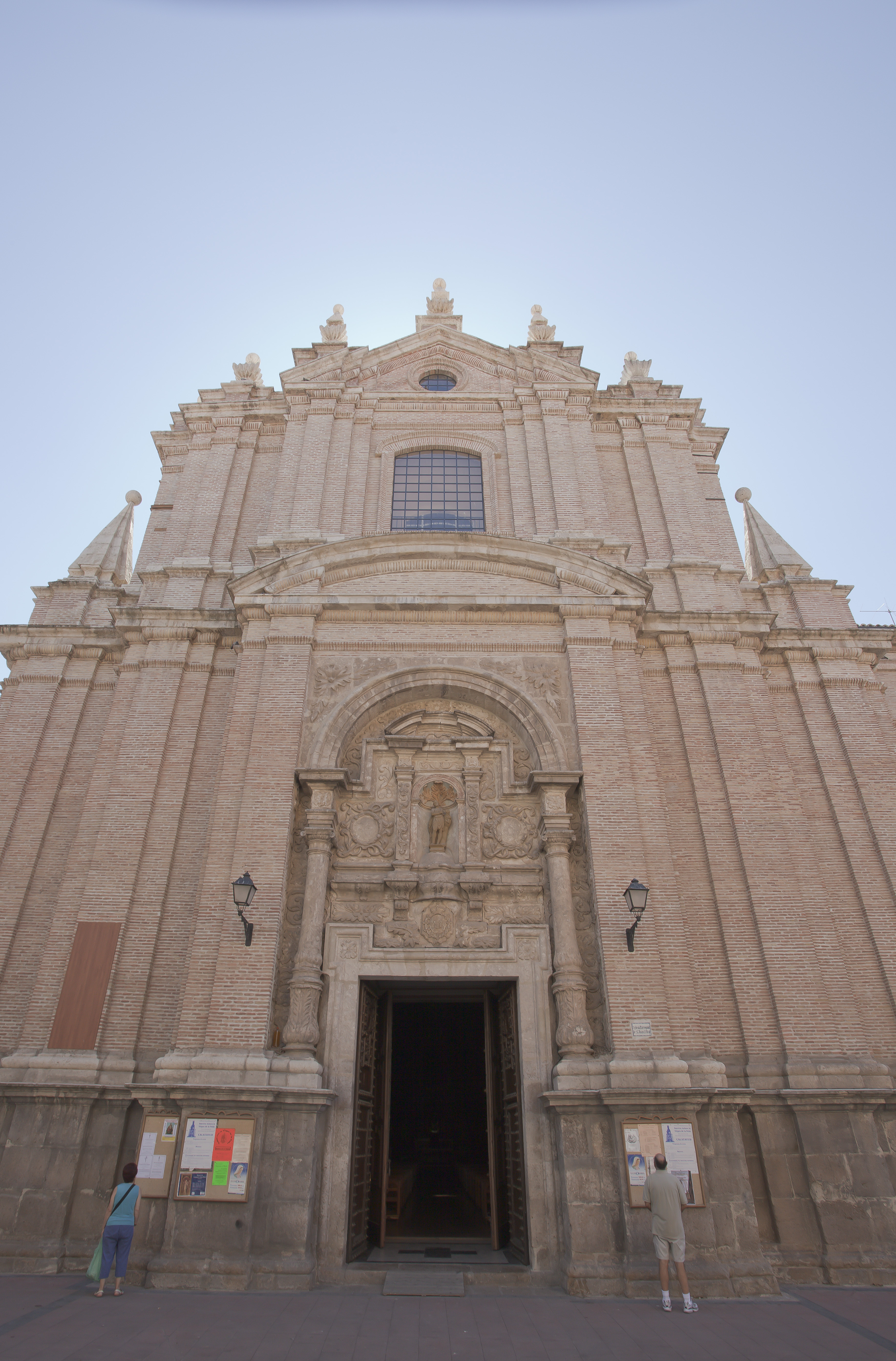 Church of San Juan El Real, Calatayud, Spain